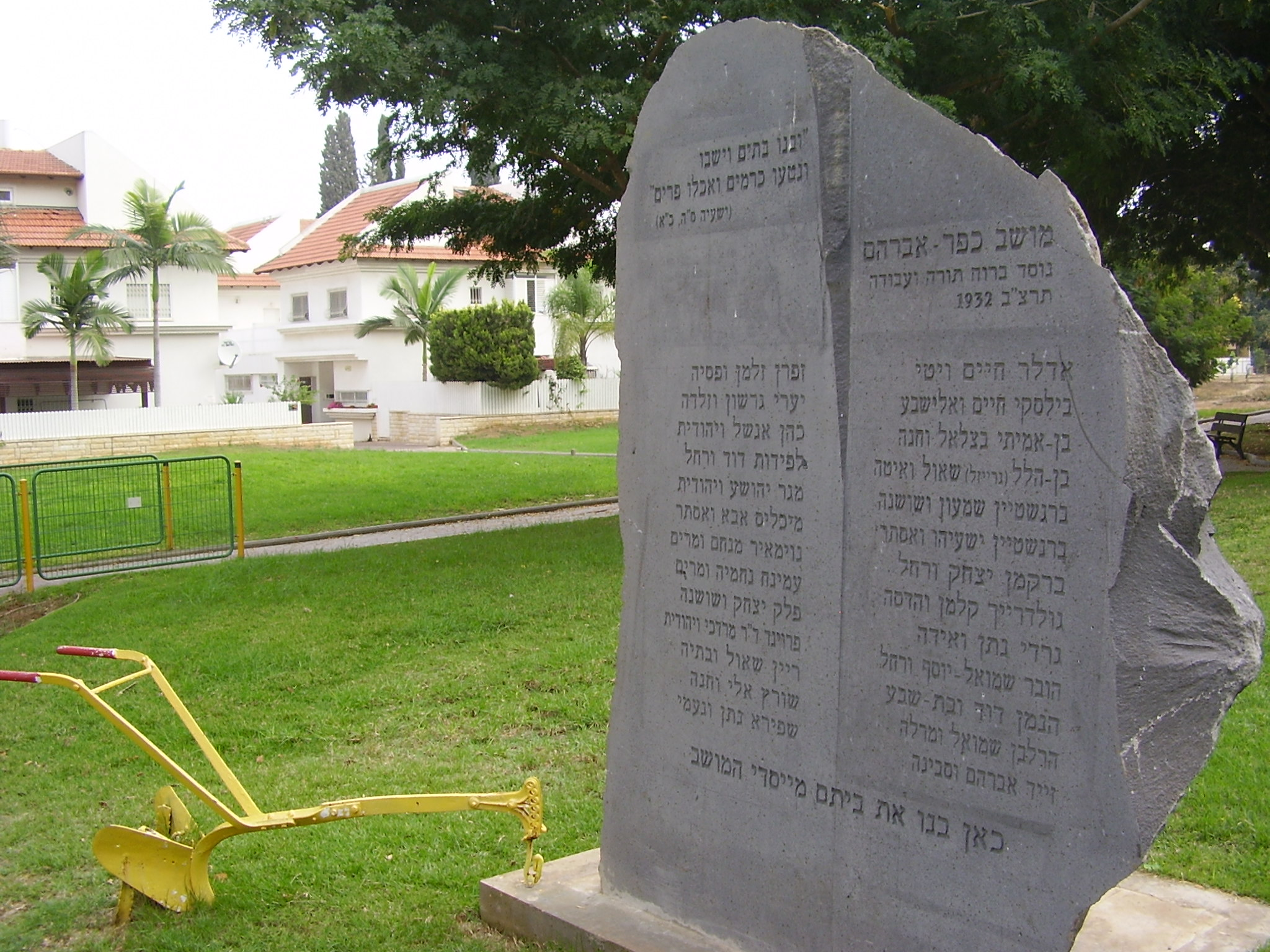 Memorial to the founders of kfar abraham (today- in Petah Tikva)